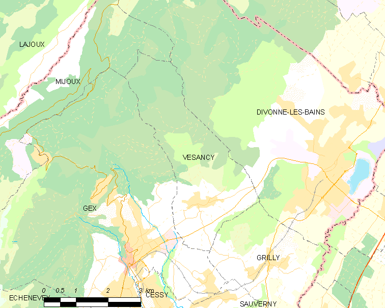 Map of French commune: Vesancy Map commune FR insee code 01436.png